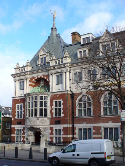 Travelodge, King's Cross This imposing building on Gray's Inn Road with overtones of French chateau now houses a Travelodge and is very close to the railway terminus.